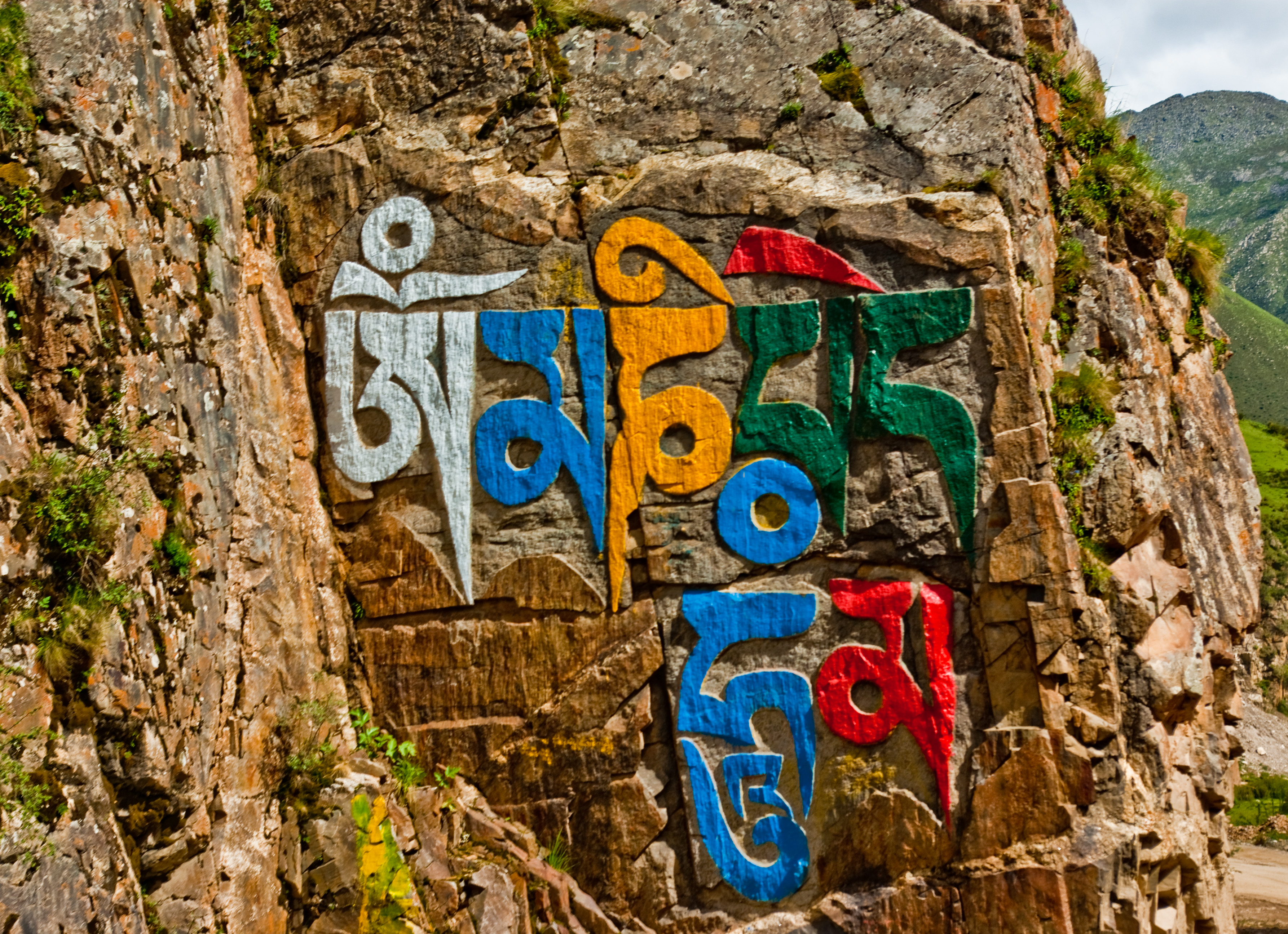 Om mani padme hum writ on rock